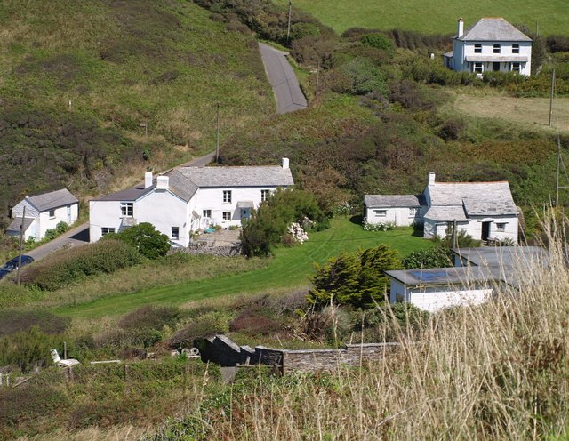 Millook The scatter of houses a few yards inland from the haven, as seen from the bend on the lane to Cancleave.